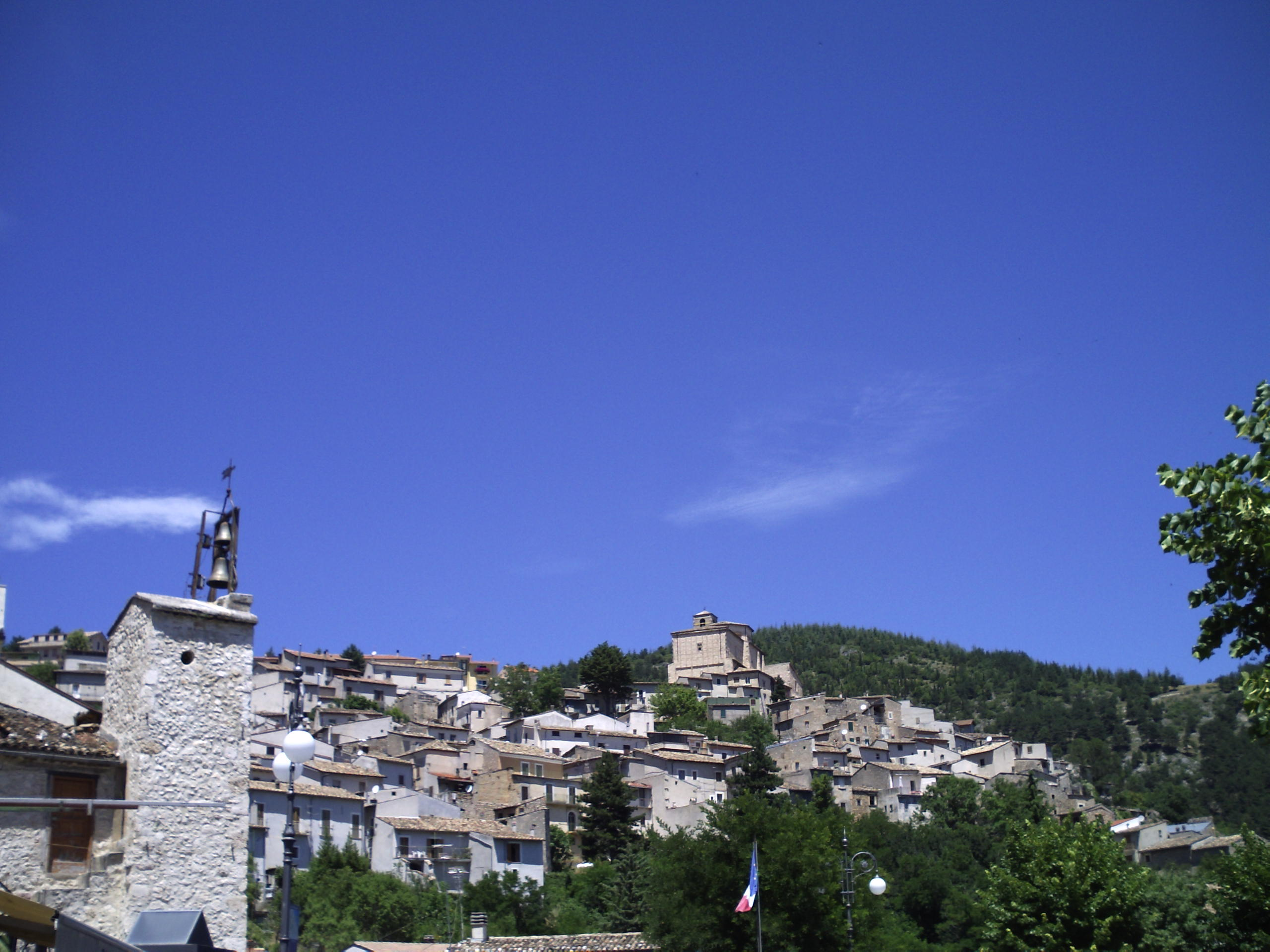 A view of Secinaro, Italy